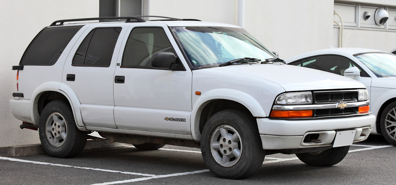 Second generation Chevrolet S-10 Blazer LS (Japan spec)